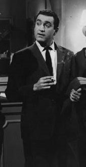 Rogelio Romano- actor